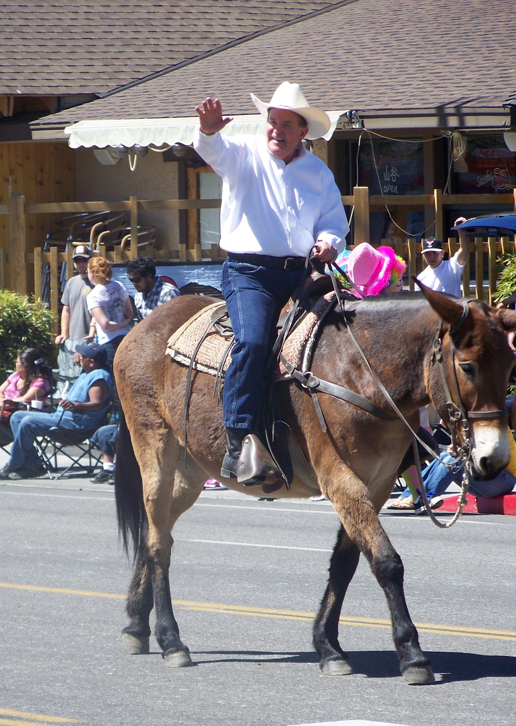 A photograph of California State Senator Roy Ashburn riding a mule during the 2010 Bishop Mule Dys parade.